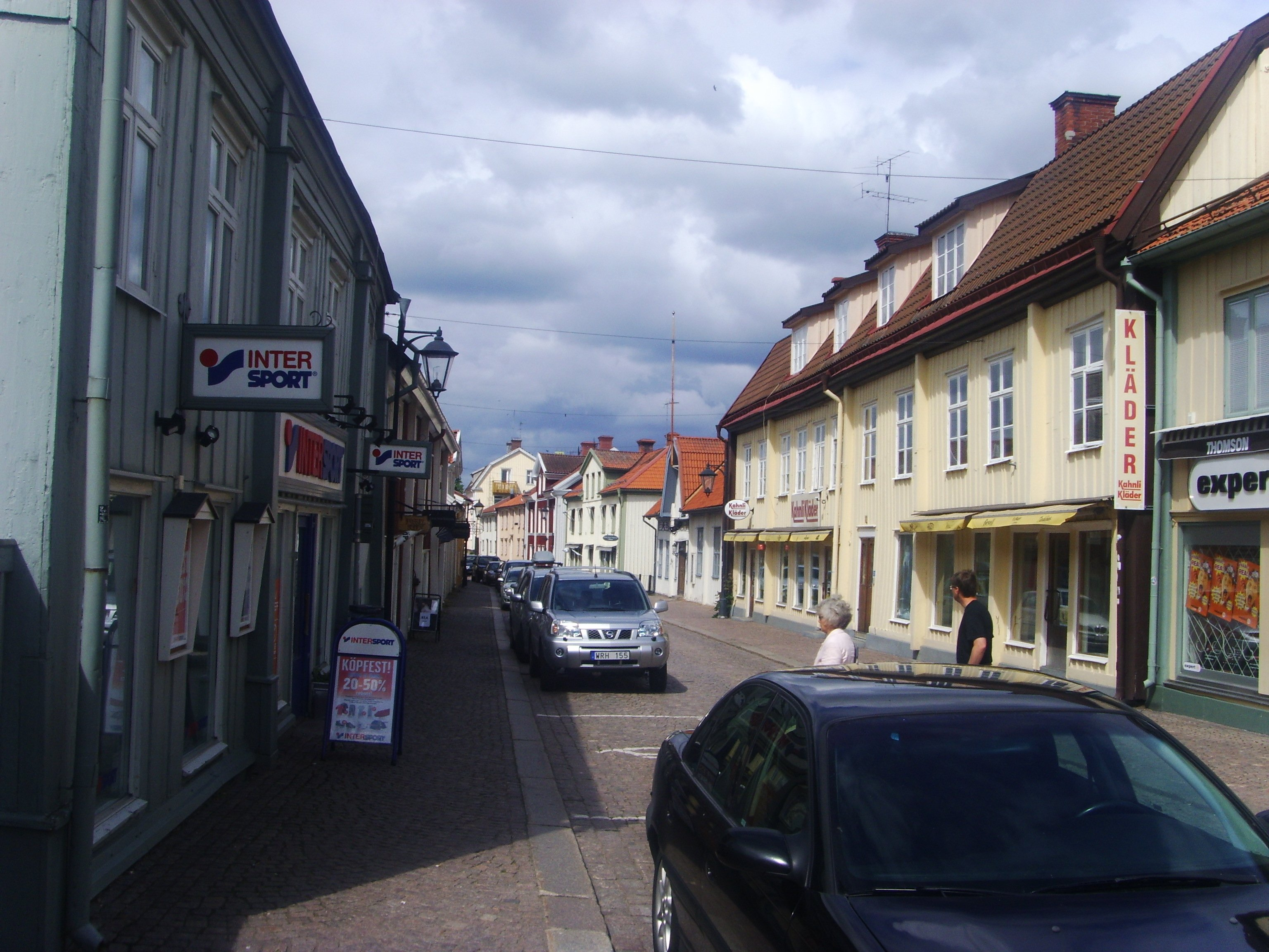 Vimmerby